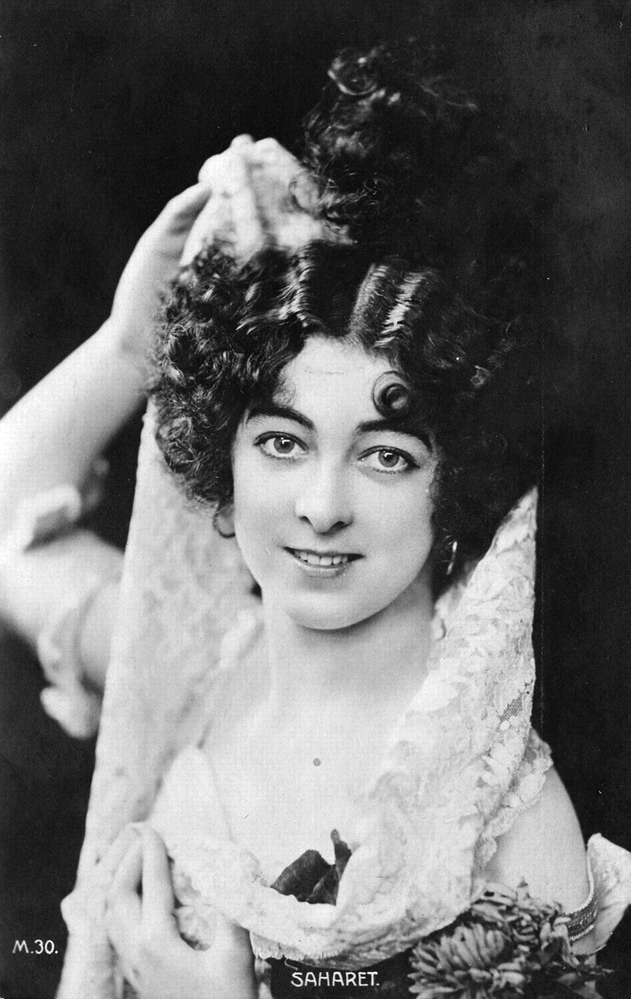 Portrait of dancer Saharet (1879-1942).